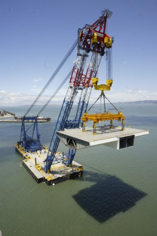 Left Coast Lifter hoists one of the cross-beam segments linking the twin spans of the Self-Anchored Suspension portion.